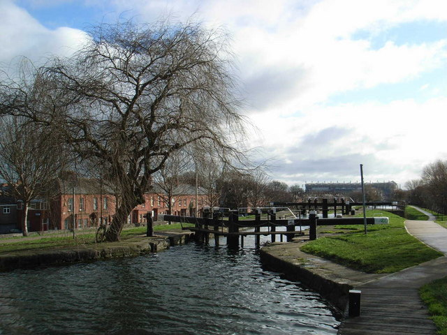 Royal Canal 4th Lock The fourth lock on the Royal Canal, downstream from Cross Guns bridge in Phibsborough. Croke Park can be seen in the distance.